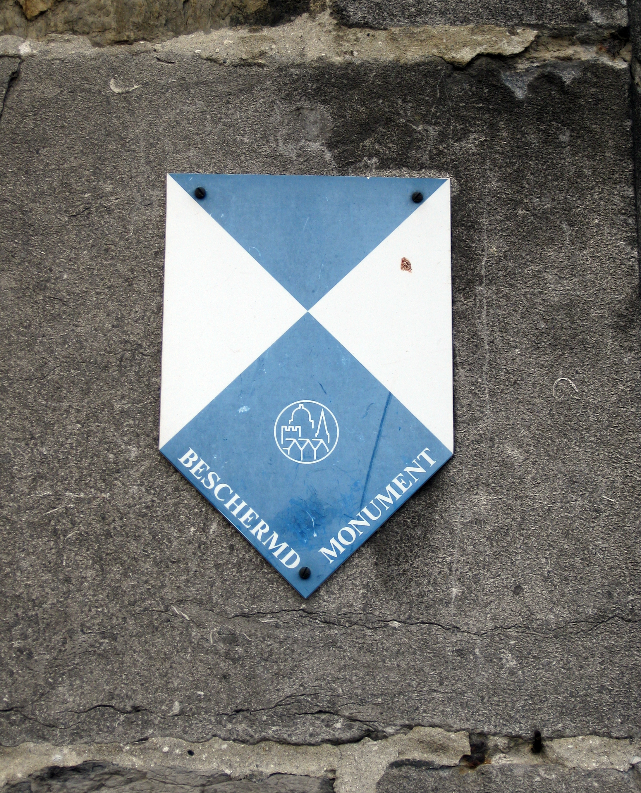 Belgium, West Flanders, Bruges, Belfried: Emblem of the Hague Convention of 1954 with text "Beschermd Monument", used to mark protected buildings and other structures.